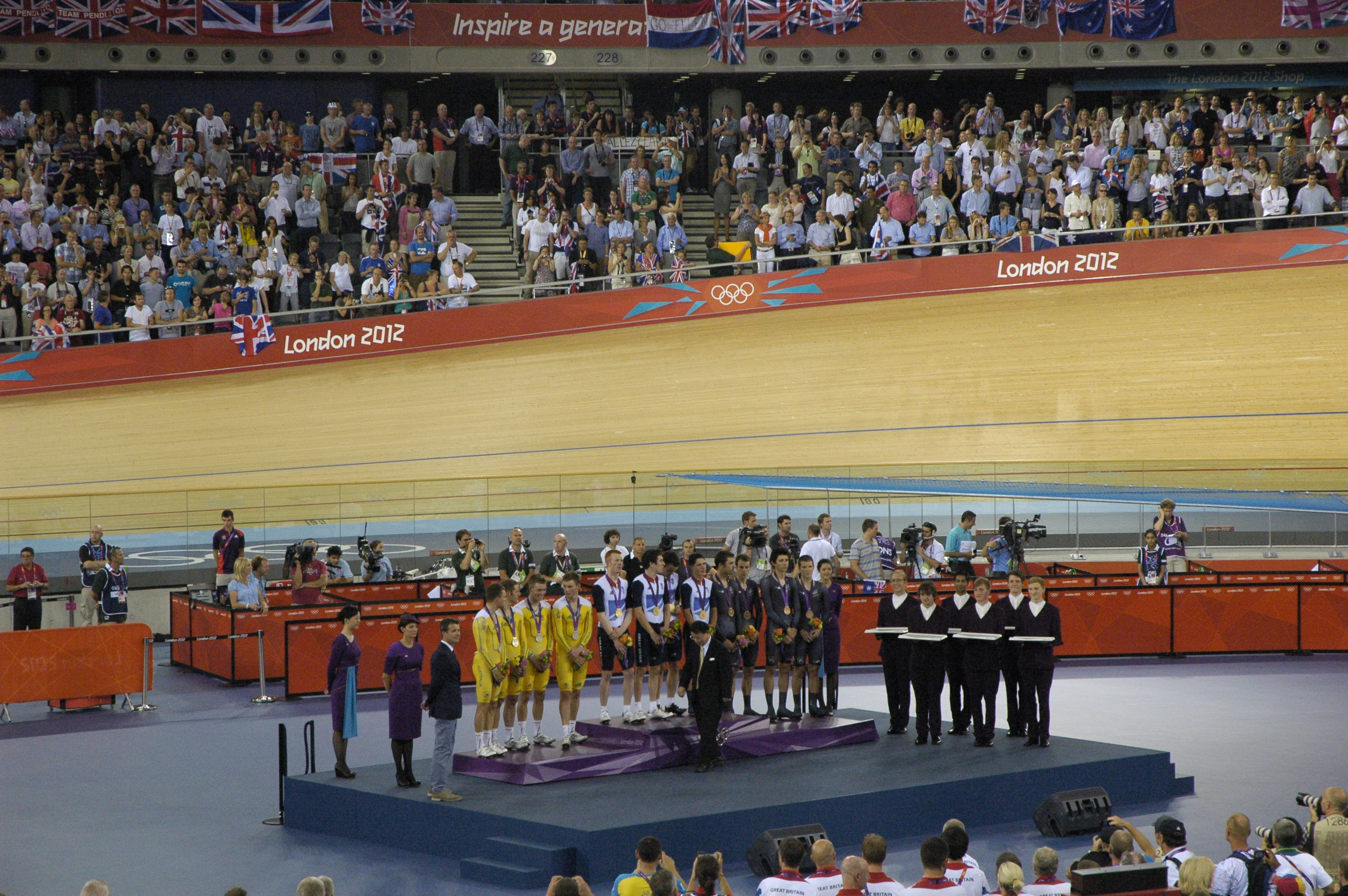 Podium Cycling at the 2012 Summer Olympics – Men's team pursuit (CT002, 3 August)